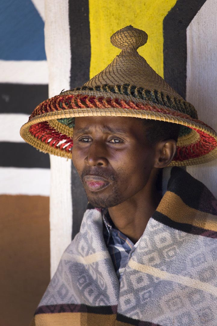 Sotho elder, South Africa.